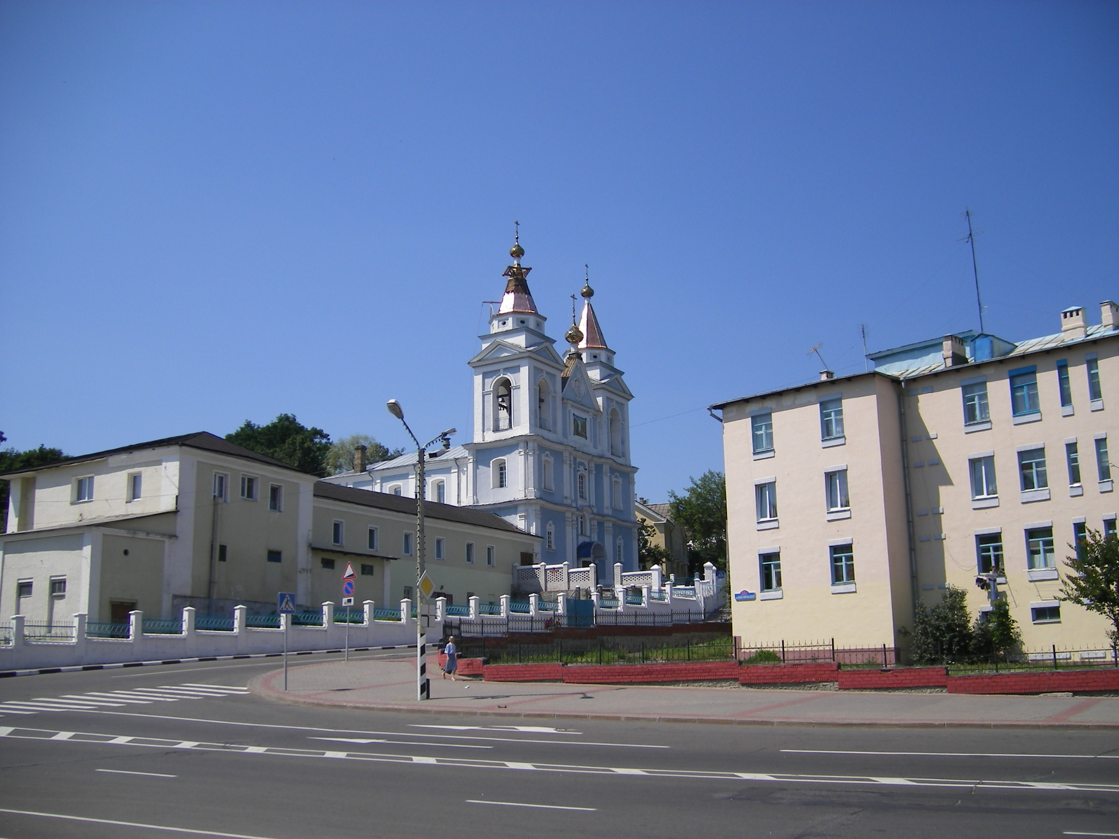 Mazyr, St. Michael´s church